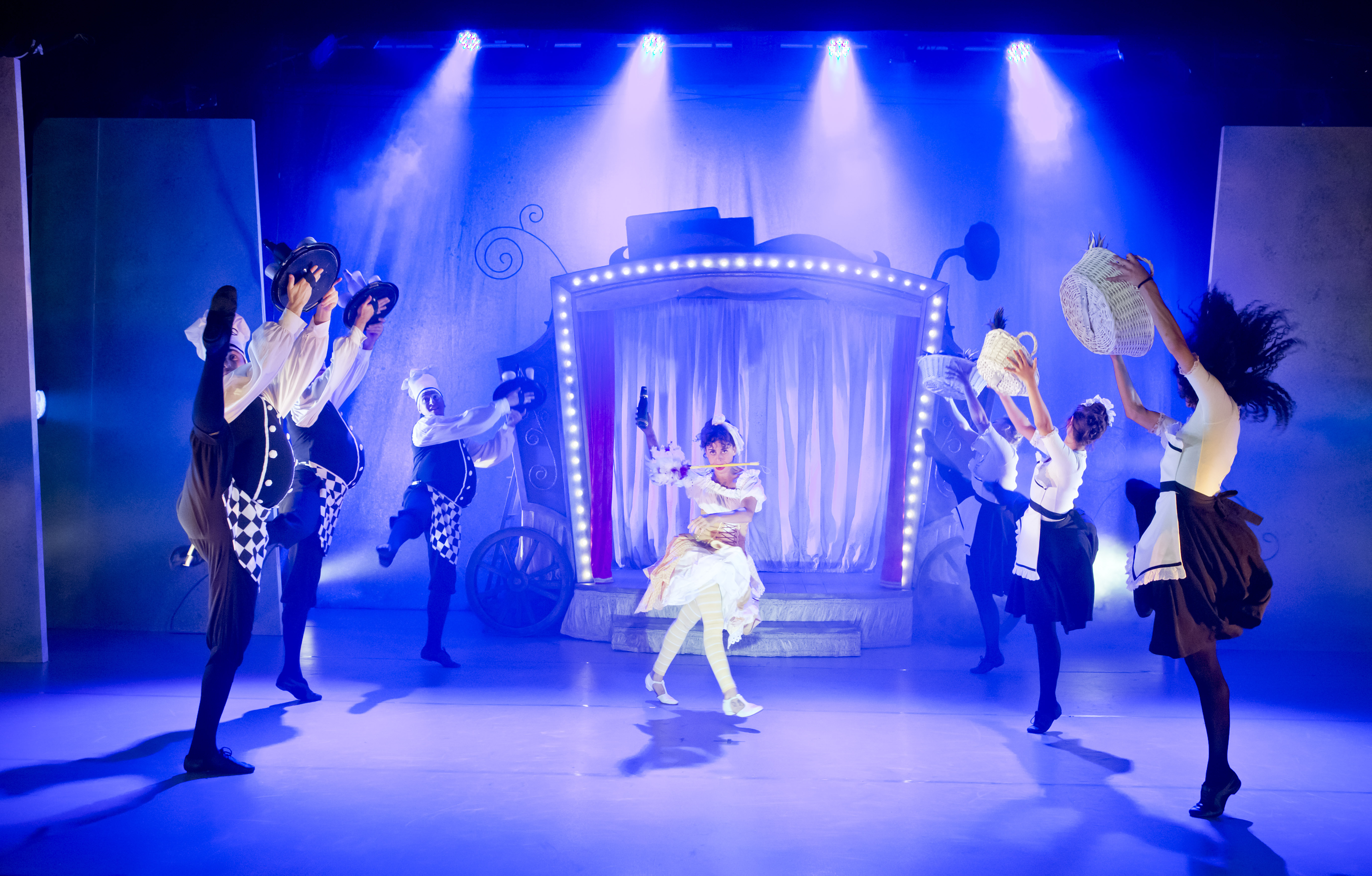 "Rikdina" - Orna Porat Theater in cooperation with Inbal Dance Group. Lighting designer: Ziv Voloshin. Photographer: Kfir Bolotin.